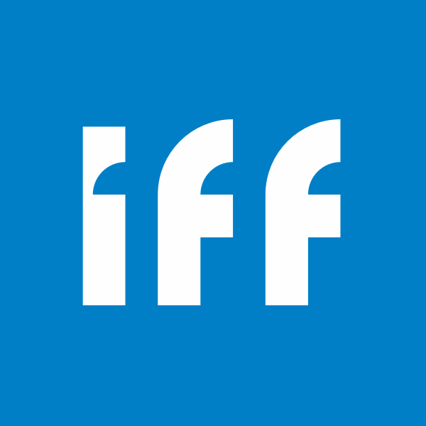 Logo image